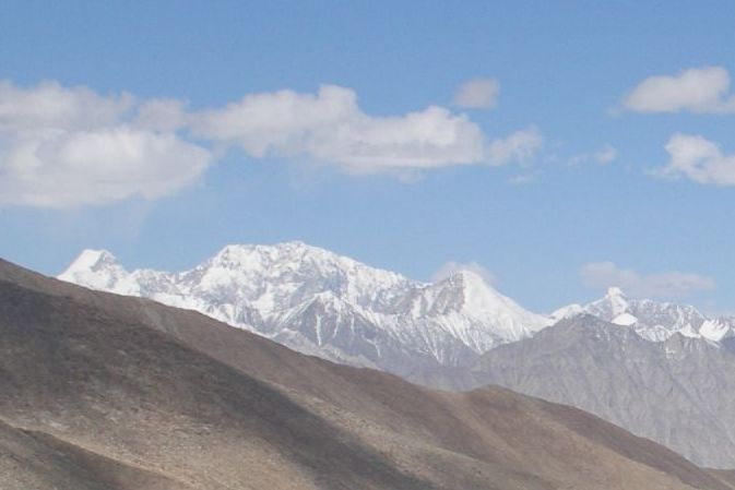 Saser Kangri III and II (from left to right) seen from Khardung La, Ladakh Range, India.